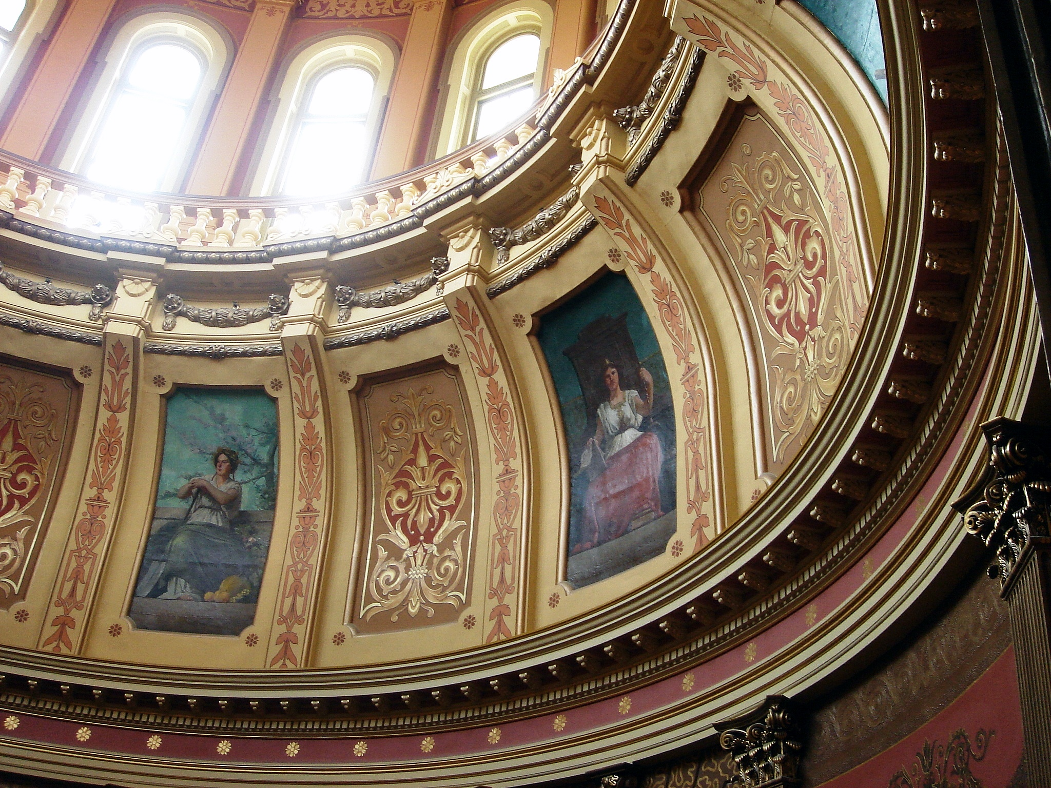 Michigan State Capitol, interior, a couple of mural paintings.